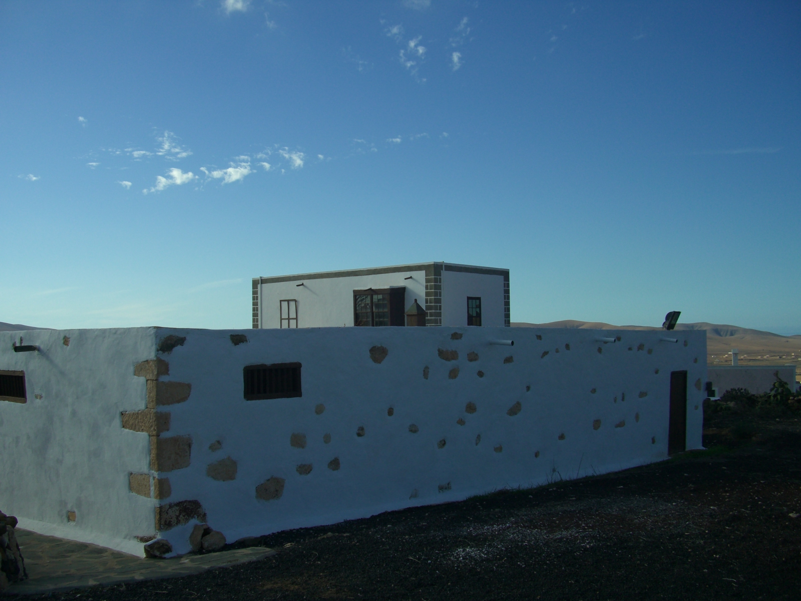 External view of the "Casa de los Alfaro" (Alfaro´s House) located in Fuerteventura (Spain), know nowaday as the "Doctor Don Tomás Mena Museum".